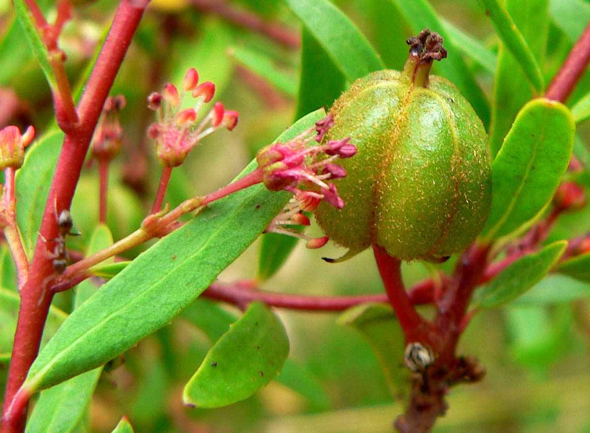 Photo of Tetracoccus dioicus at the Regional Parks Botanic Garden